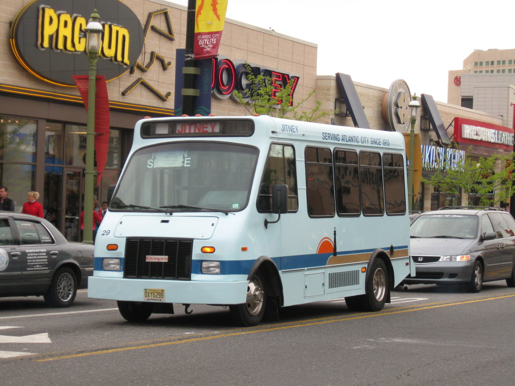 Atlantic City Jitney Association bus 29 operates in the shopping district.